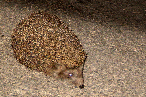 Erinaceus concolor,eastern hedgehog, קיפוד מצוי